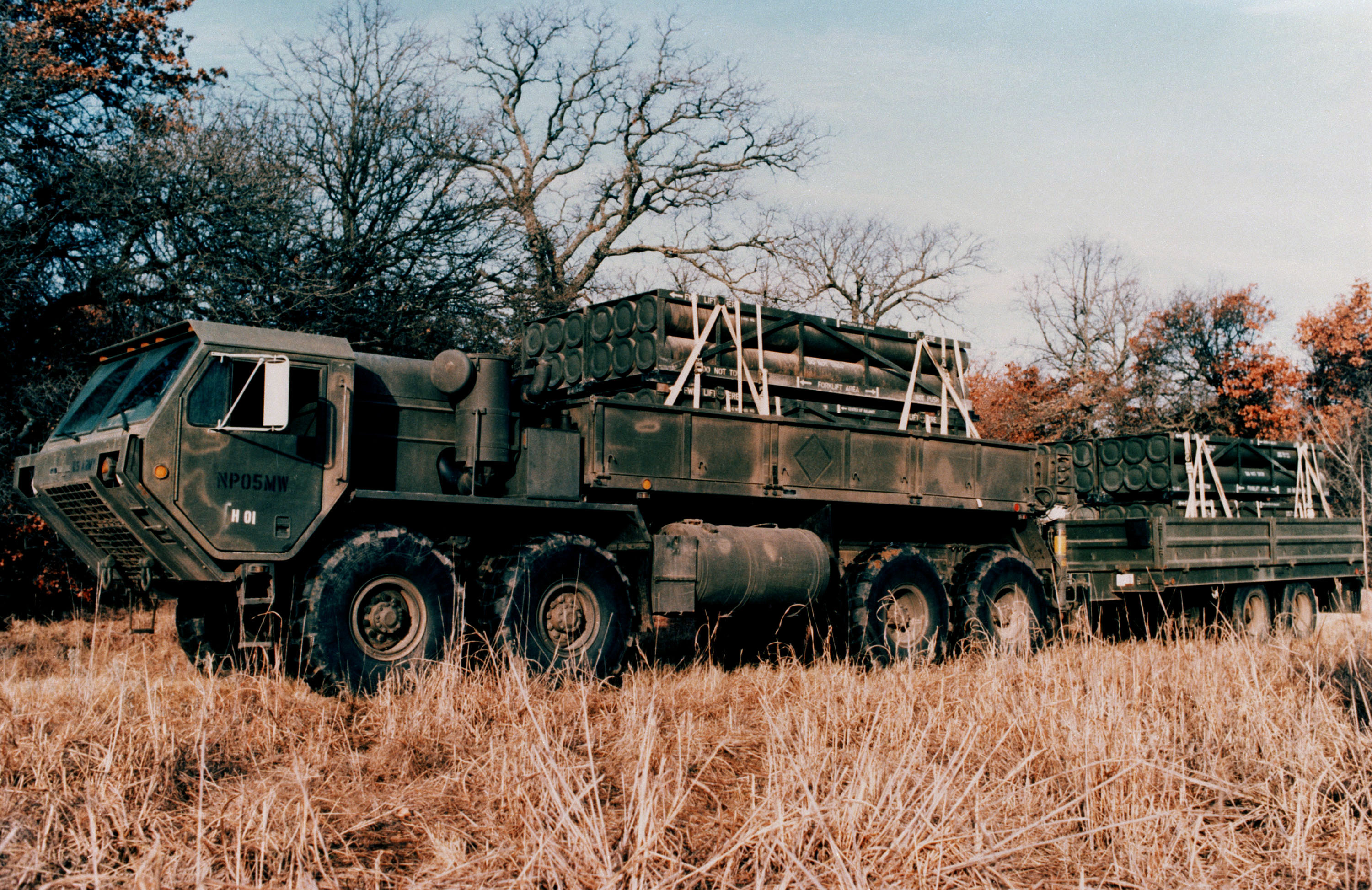 A view of a heavy expanded mobility truck (HEMTT) loaded with multiple launch rocket system (MLRS) rockets.